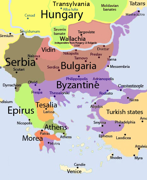 Map of Bulgaria and Byzantine empire.